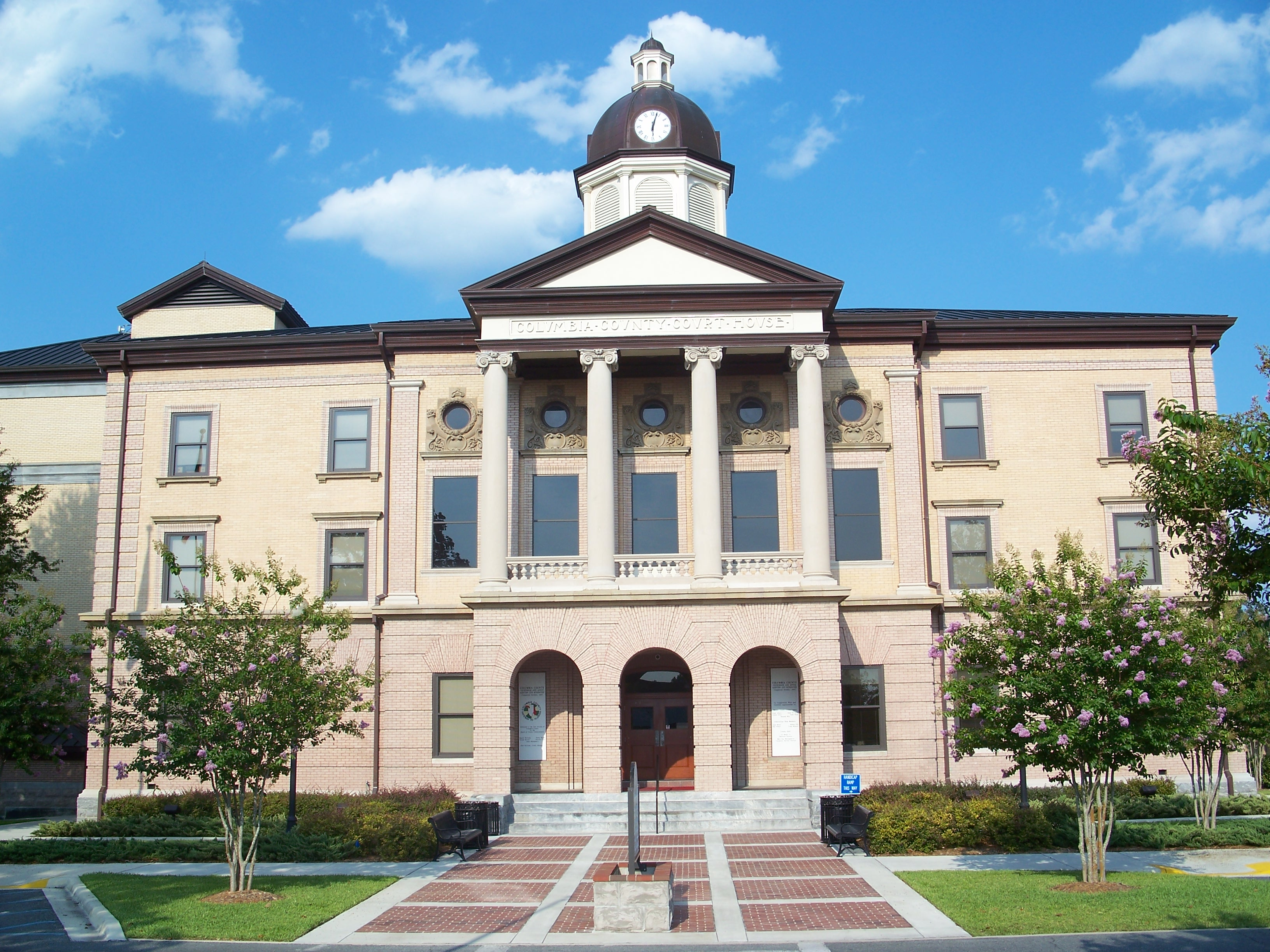 Columbia County Courthouse, in the Lake City Historic Commercial District, in Lake City, Florida